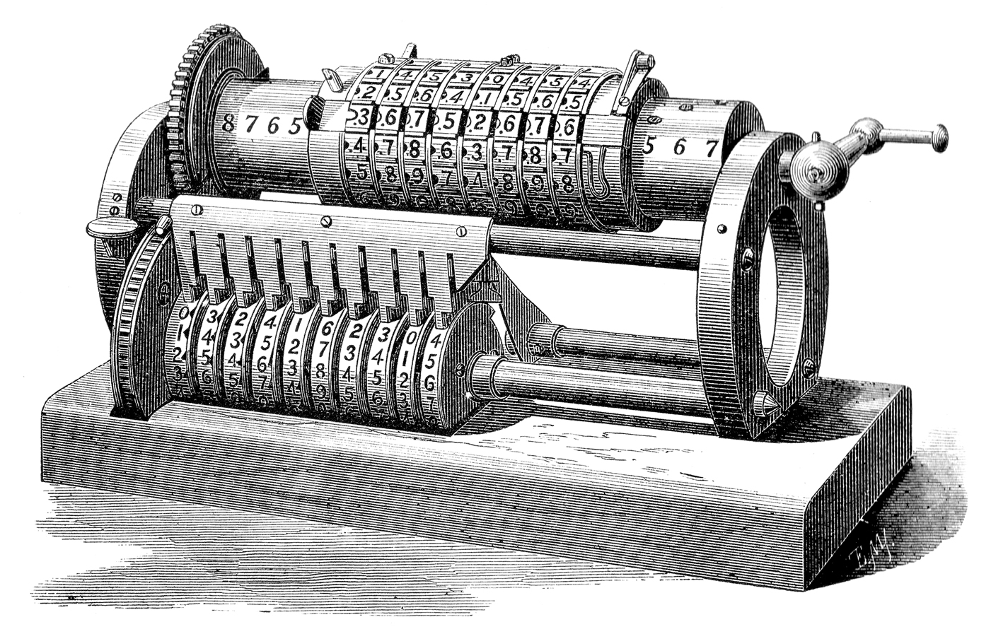 Grant mechanical calculating machine (1877) George B. Grant Co., 94 Beverly St., Boston, MA